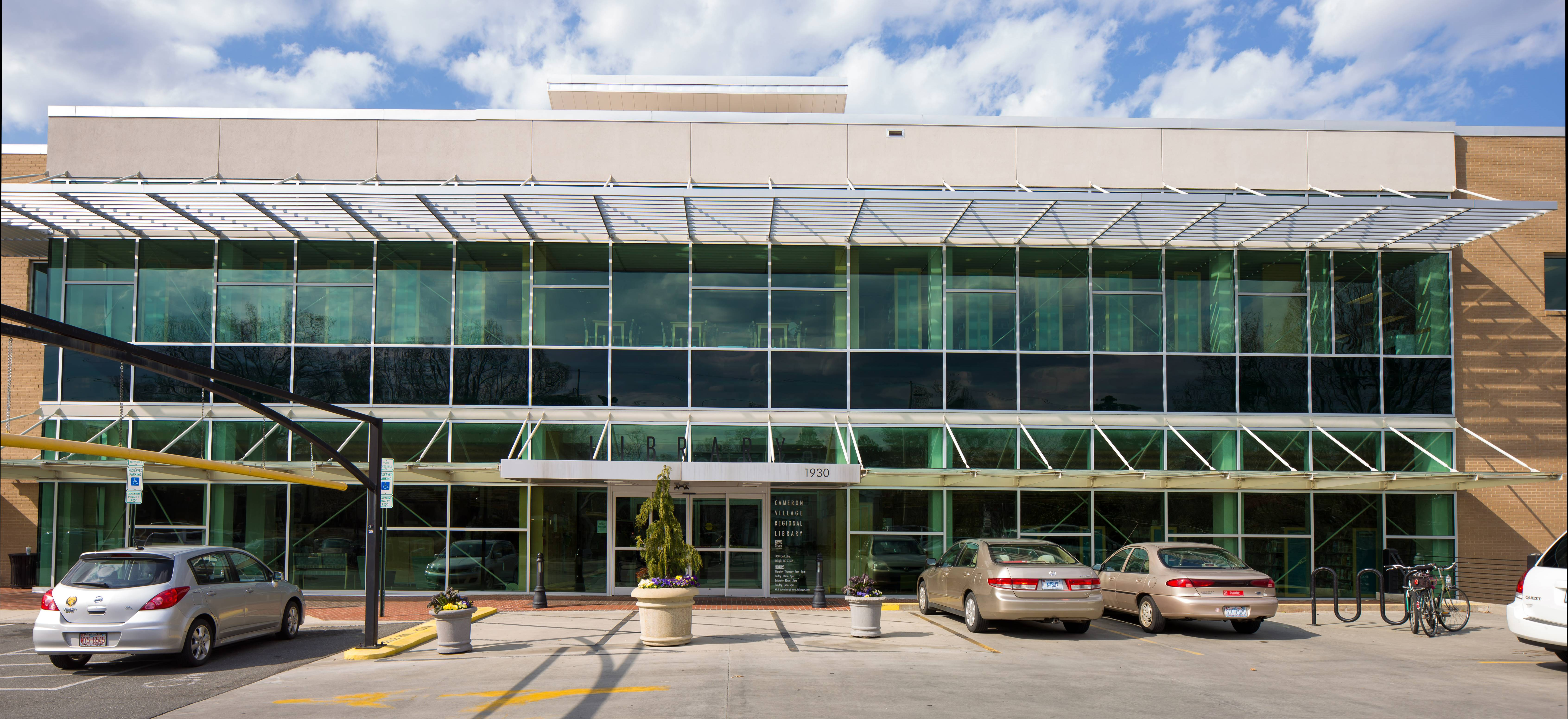 Front of the Cameron Village Regional Library in Raleigh, NC. Taken using a Canon 6D with Canon TS-E 24mm f/3.5L II lens. 3 image stitch using Microsoft ICE.